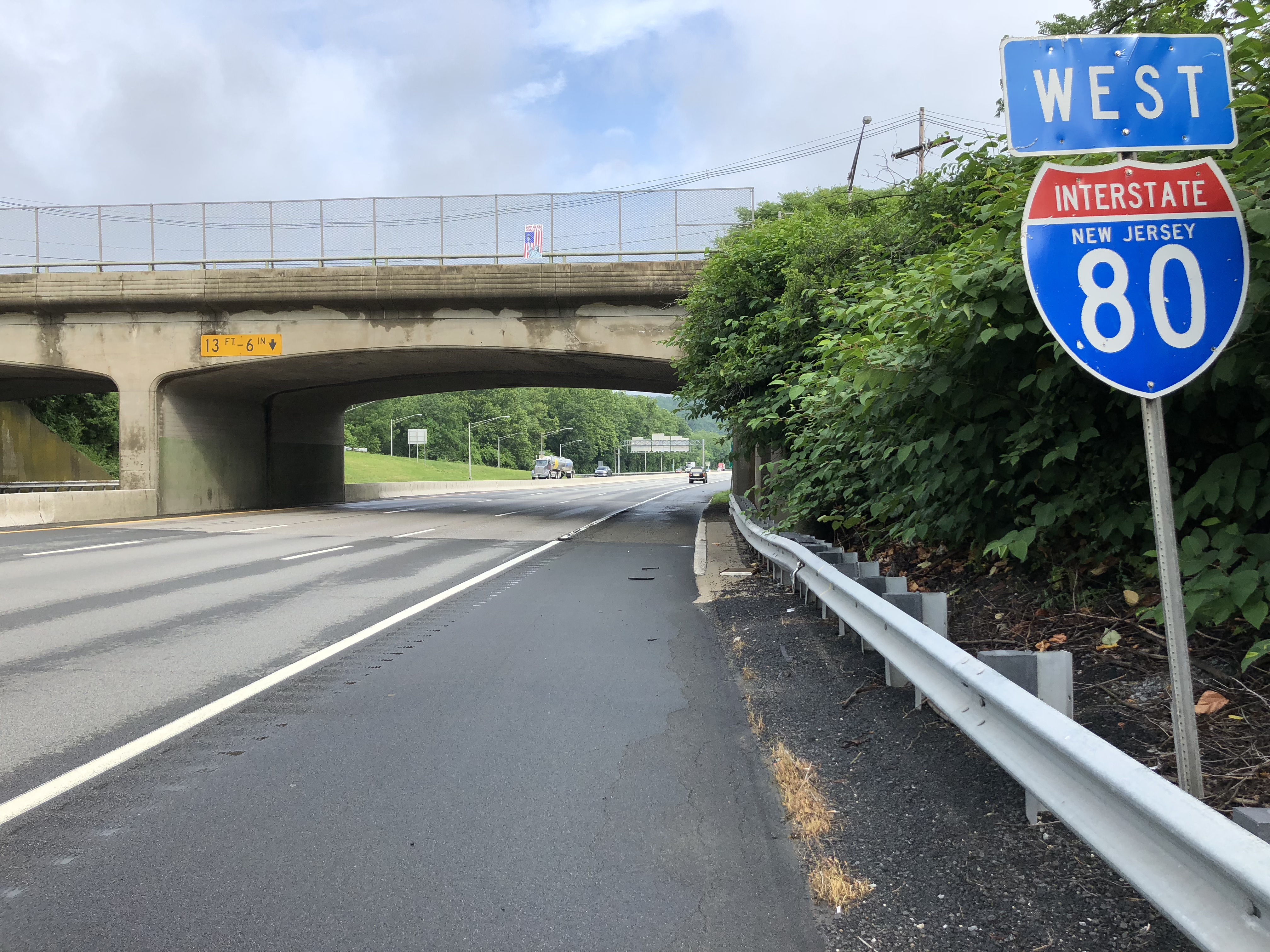 View west along Interstate 80 just west of Exit 4 in Knowlton Township, Warren County, New Jersey